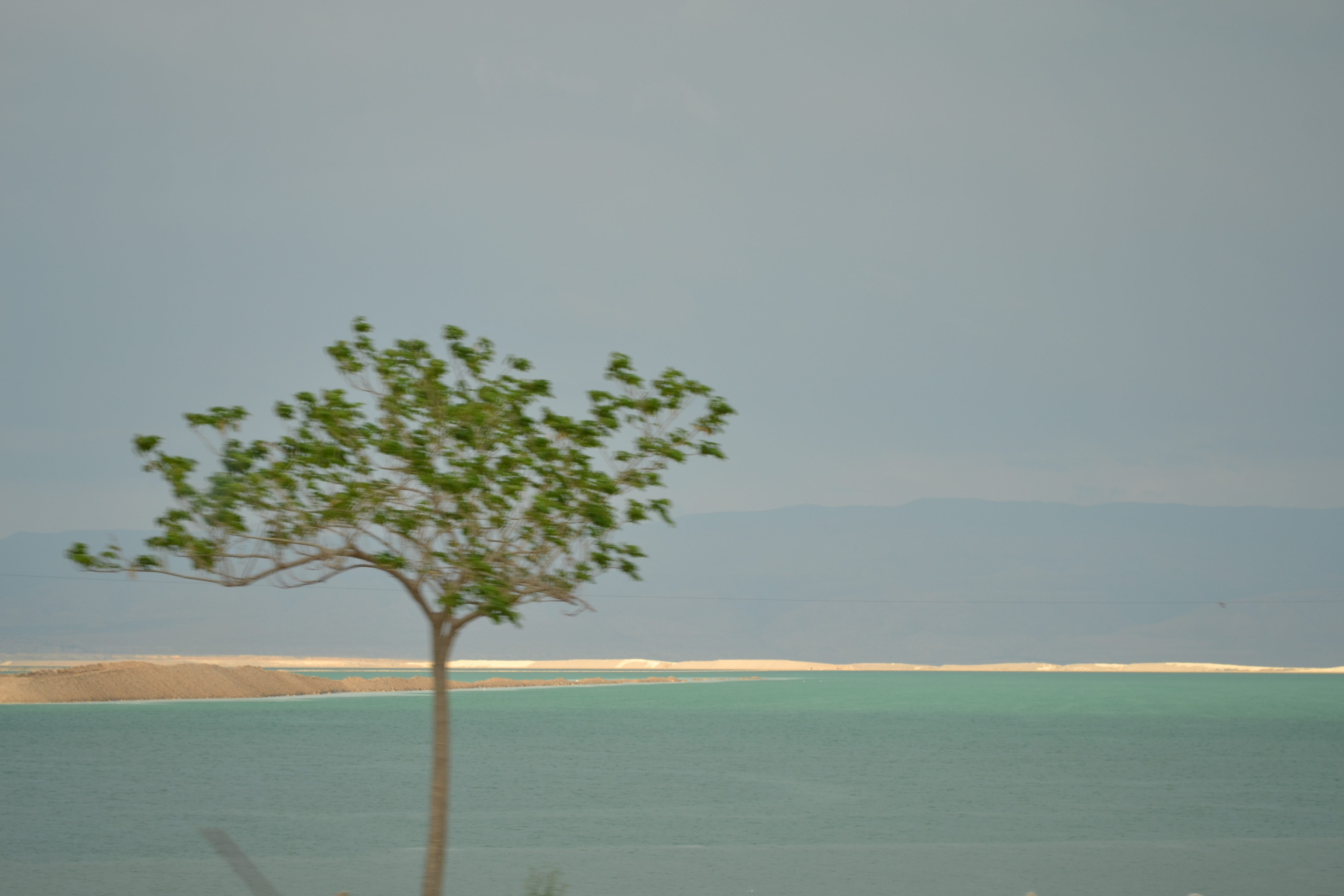 dead sea, Geography of Israel